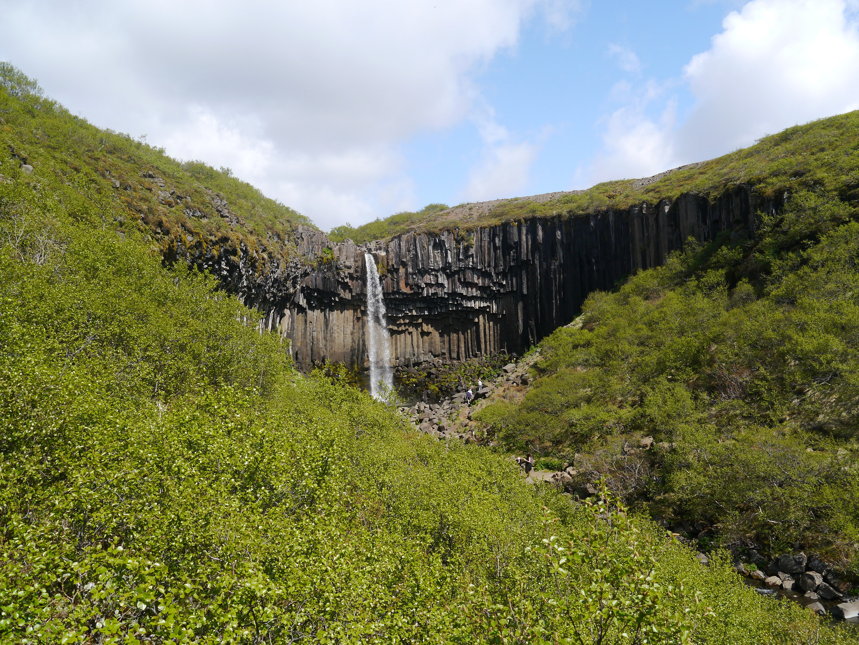 the Svartifoss, Southern Iceland